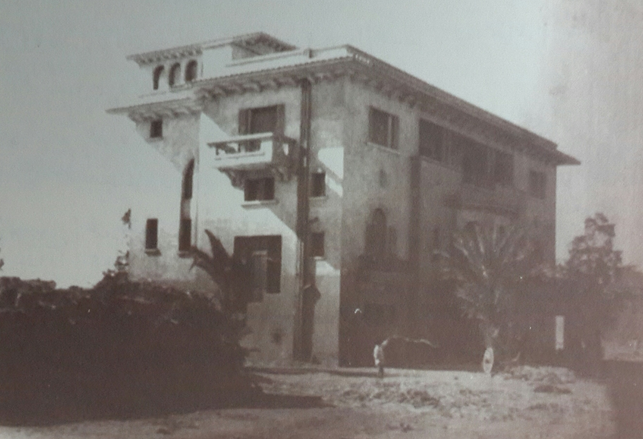 Naguib el-Rihani's villa which he bought but never lived in it, as it looked in 1949.